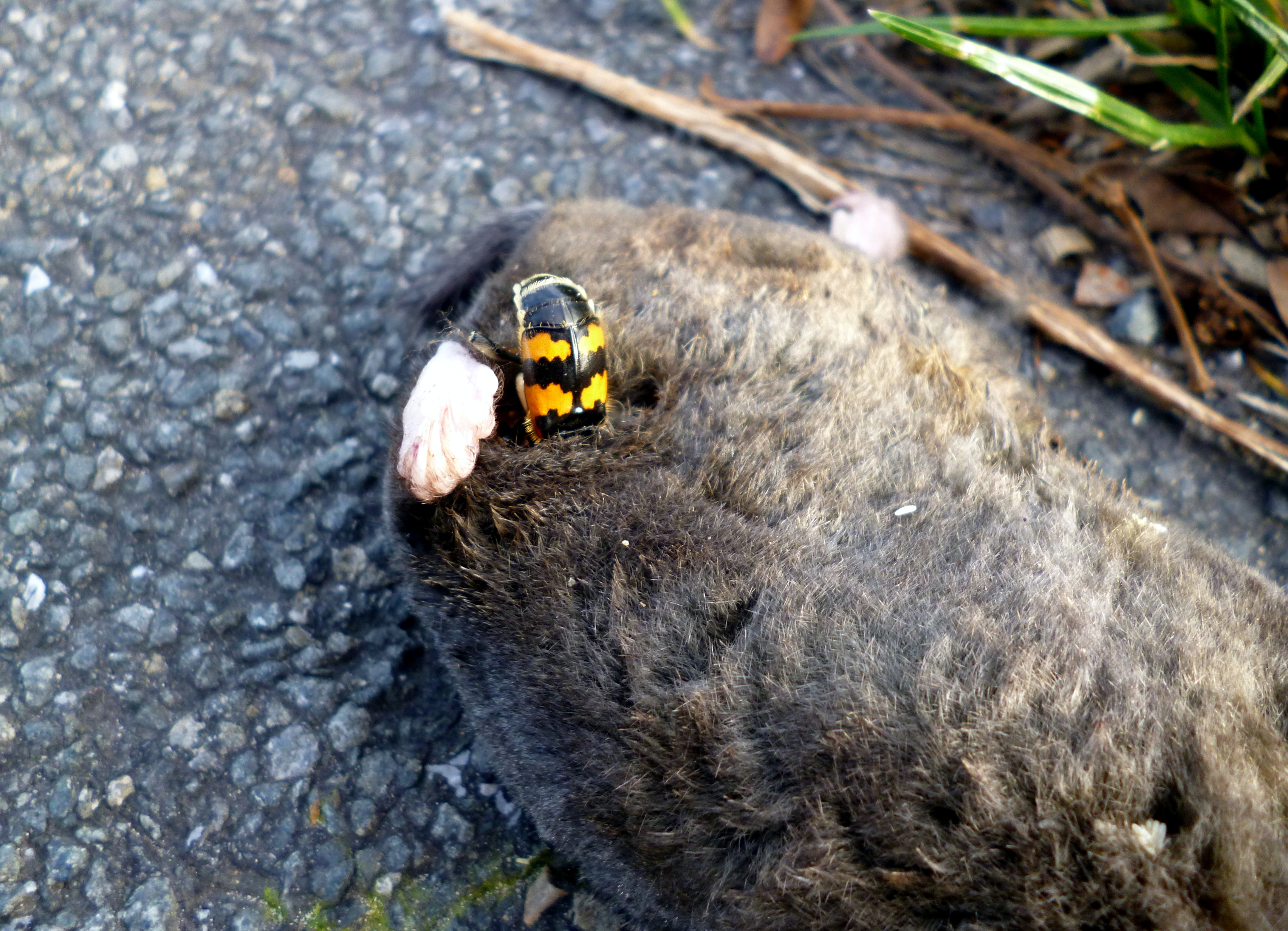 Nicrophorus vespillo on a mole carrion